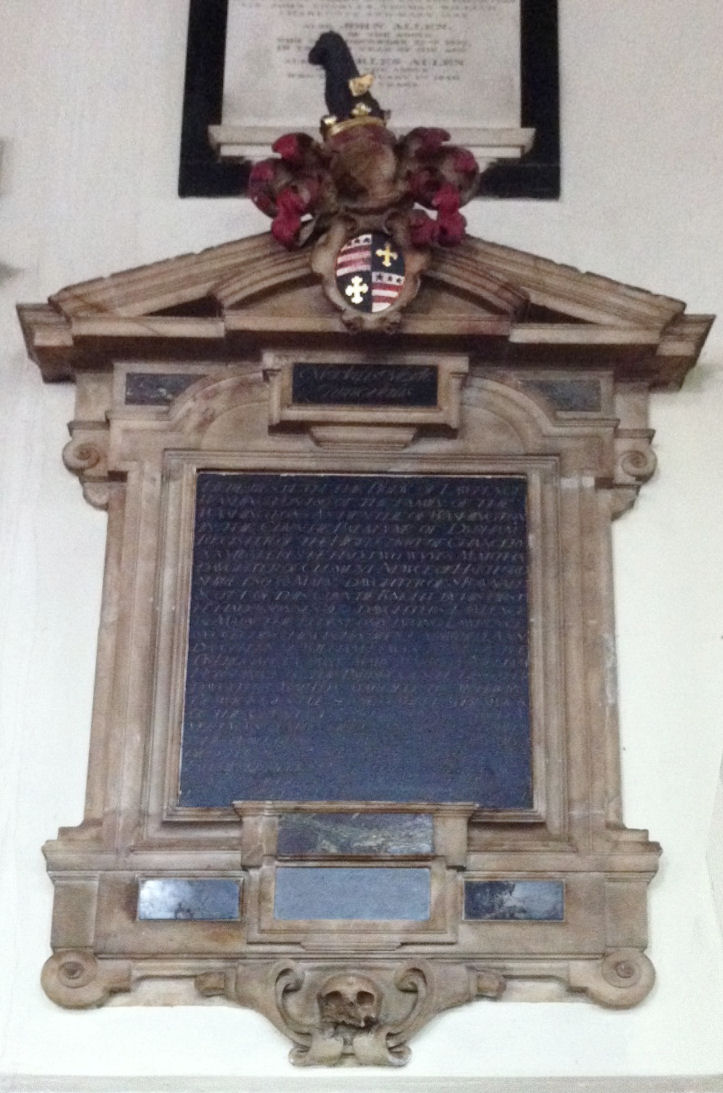 Memorial to Lawrence Washington (died 1619) in the South aisle of All Saints Church, Maidstone, Kent, featuring the stars and stripes of the Washington coat of arms. Lawrence was a lawyer who lived on Knightrider Street and held the post of Registrar of High Court of Chancery.